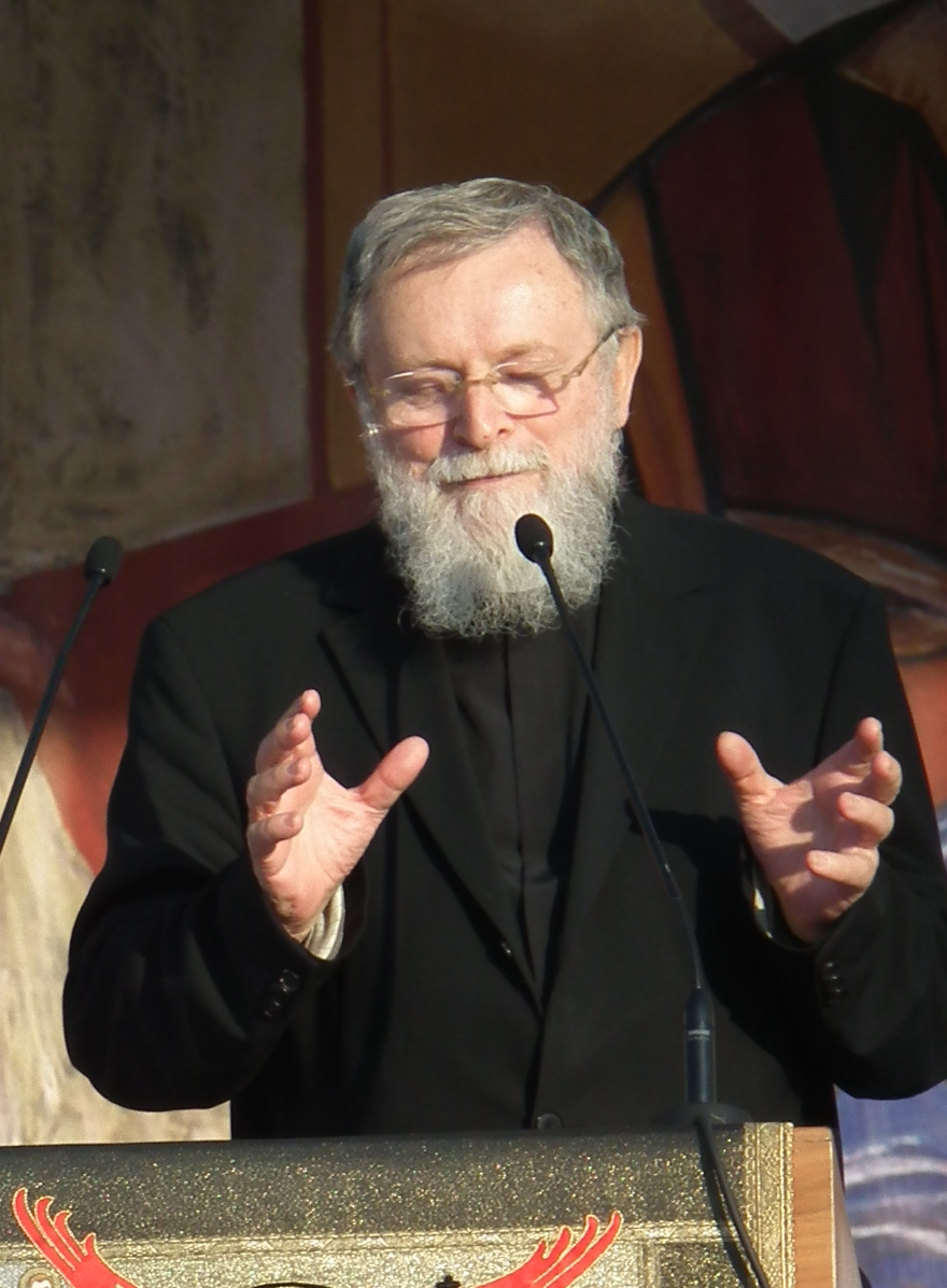 Mario Pezzi, neocatechumenal itinerant priest